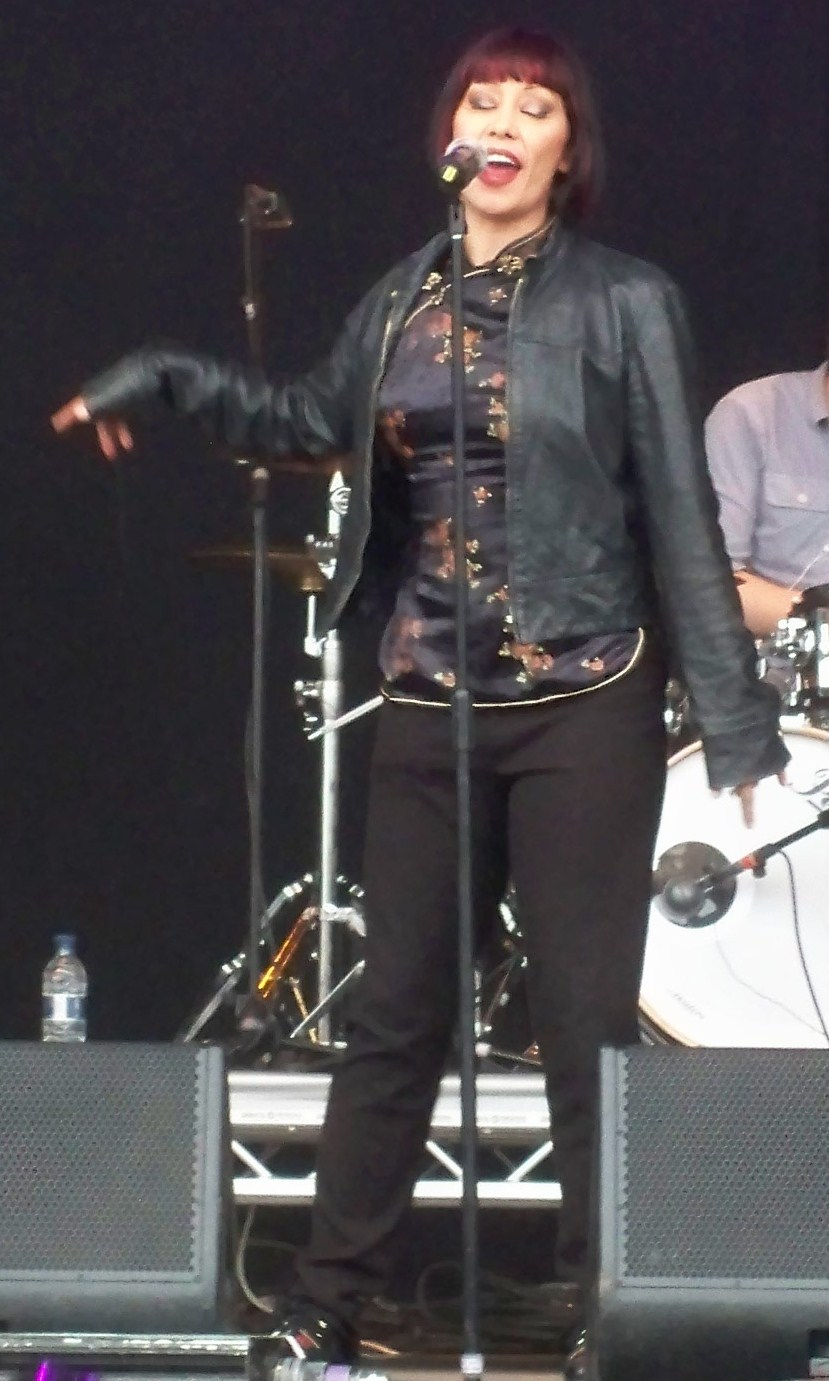 Saffron performing in front of the Guilfest Crowd in July 2012.